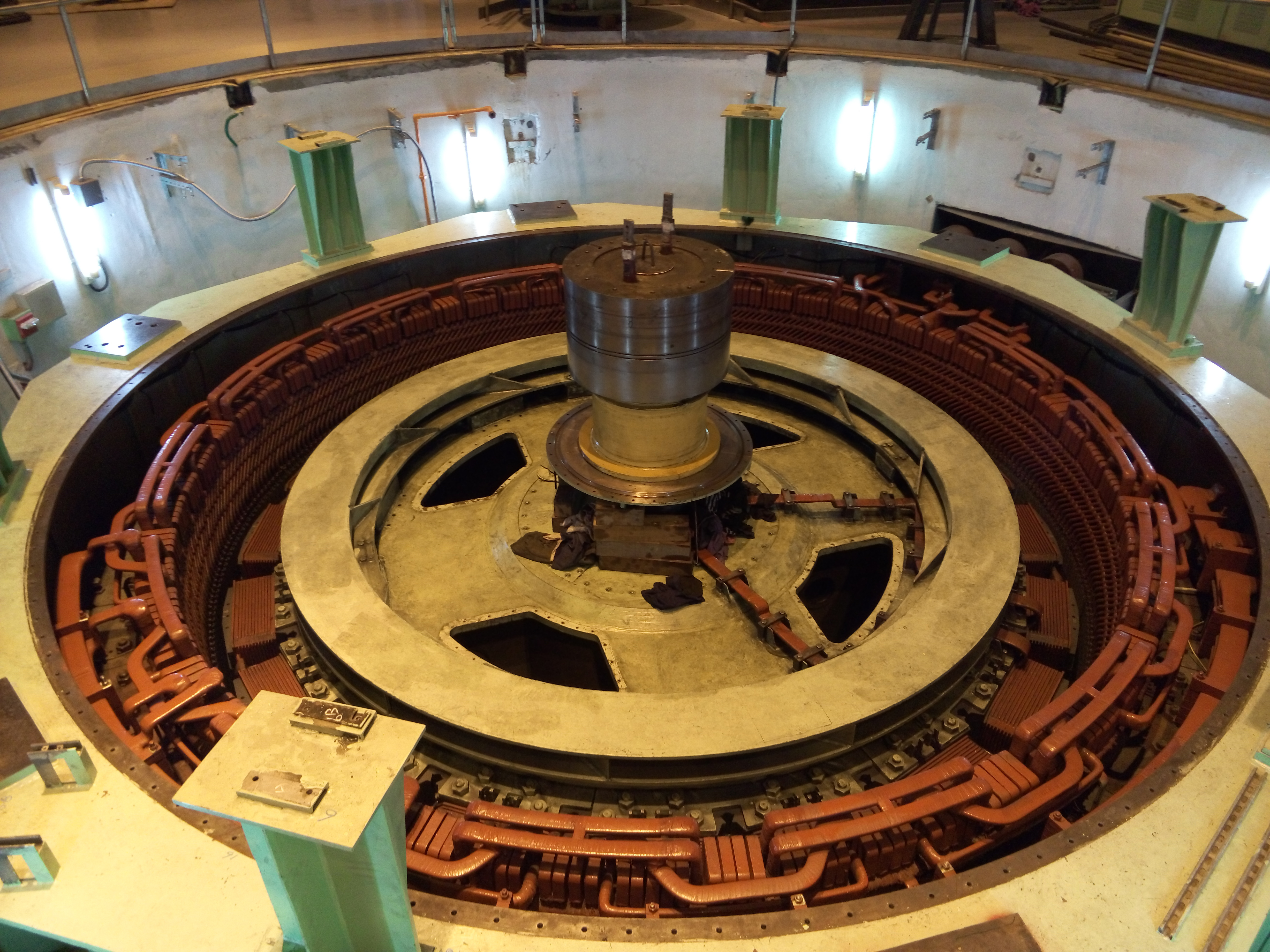 The generator rotor in Taiwan Power Company Bihai Power Plant